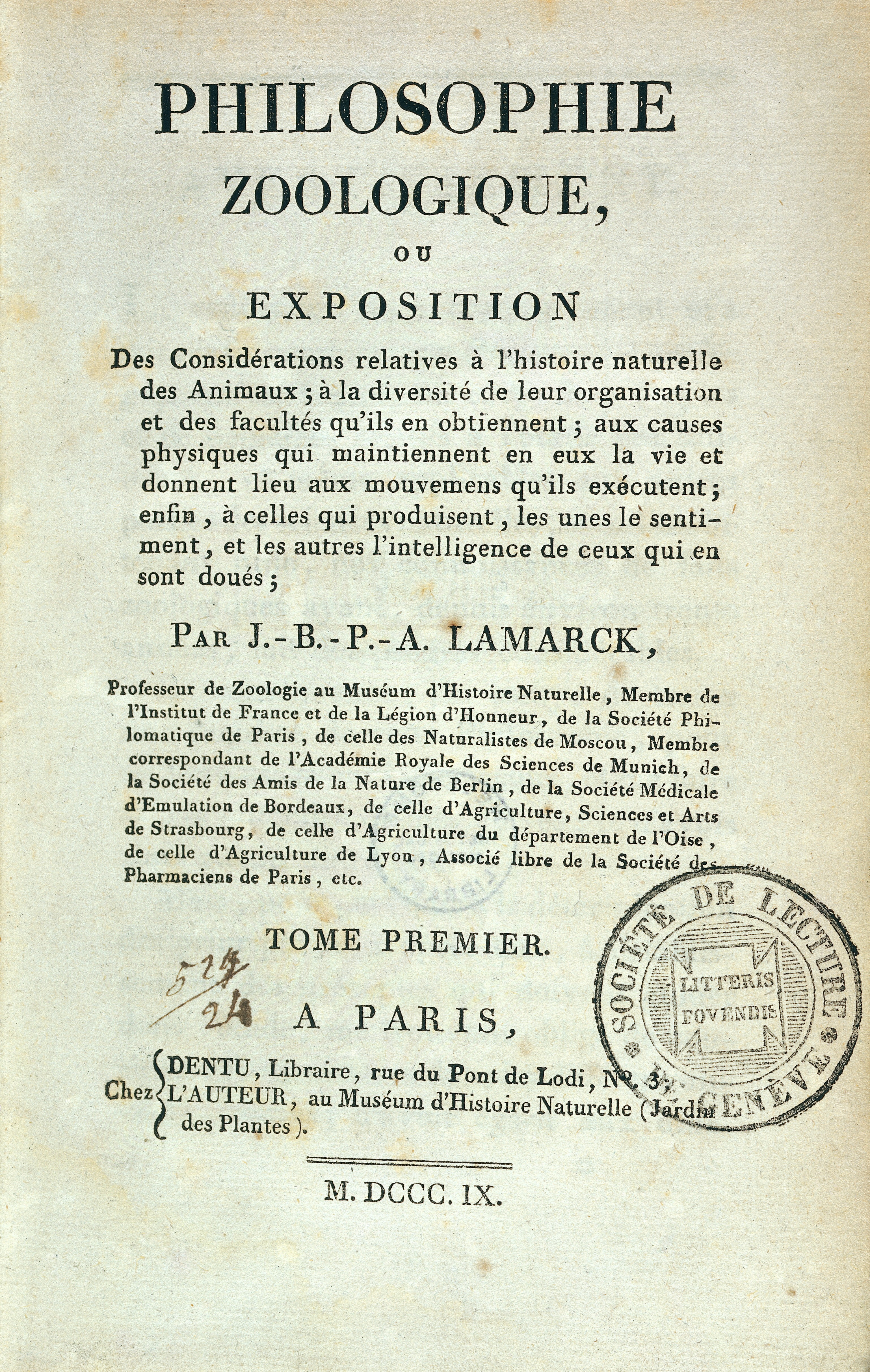 Title Page Rare Books Keywords: Zoology; Natural History; Physiology; Environment; Jean-Baptiste-Pierre-Antoine de Monet Lamarck